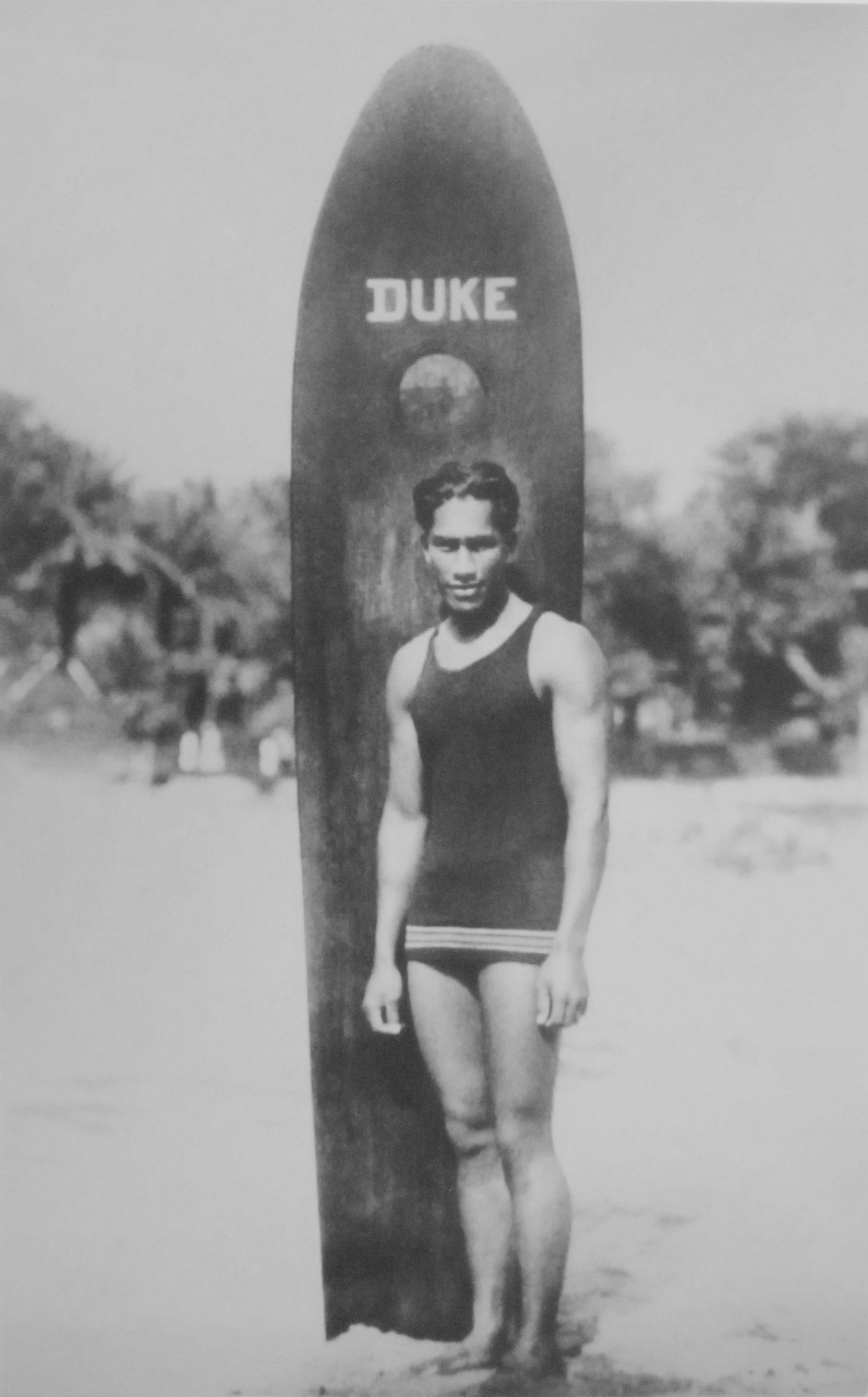 Anonymous photograph of Duke Paoa Kahanamoku with his surfboard, c. 1910-1915, Malama Pono Ltd. This style of surfboard is known as a “Waikiki board”.